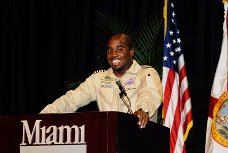 Barrington Irving talks about his experiences as the first African-American and youngest person to fly solo around the world.